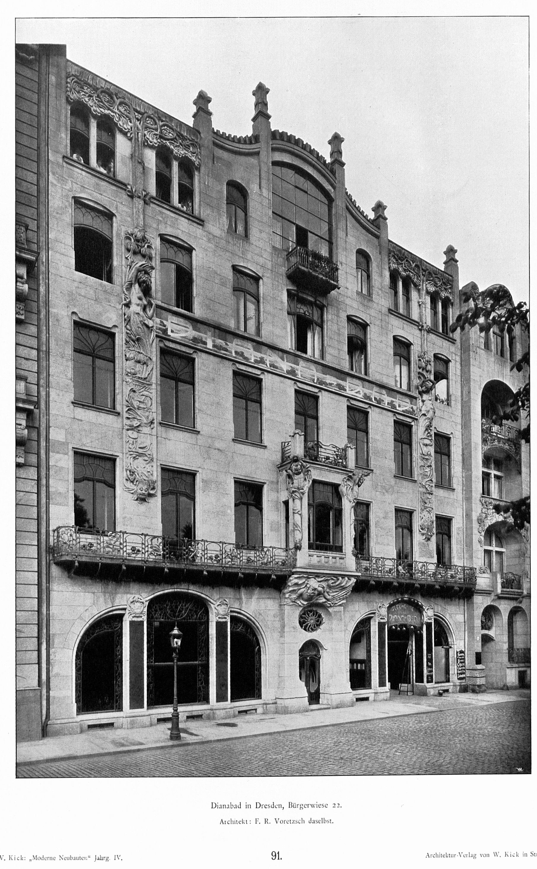 Dianabad_Haus_Bürgerwiese_22_Dresden.jpg